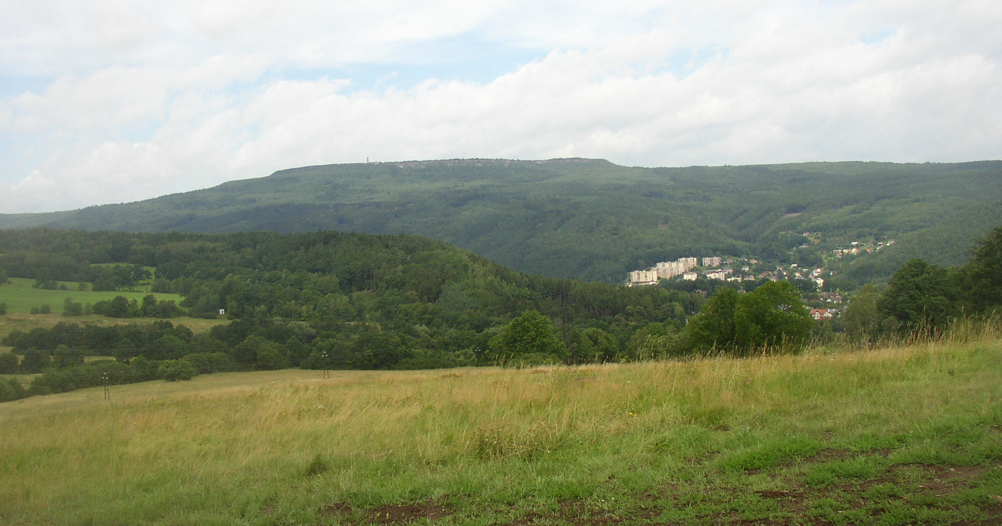 Děčínský Sněžník (723 m), a table mountain near Děčín, Czech Republic, as seen from southeast (distance ~5.3 km).